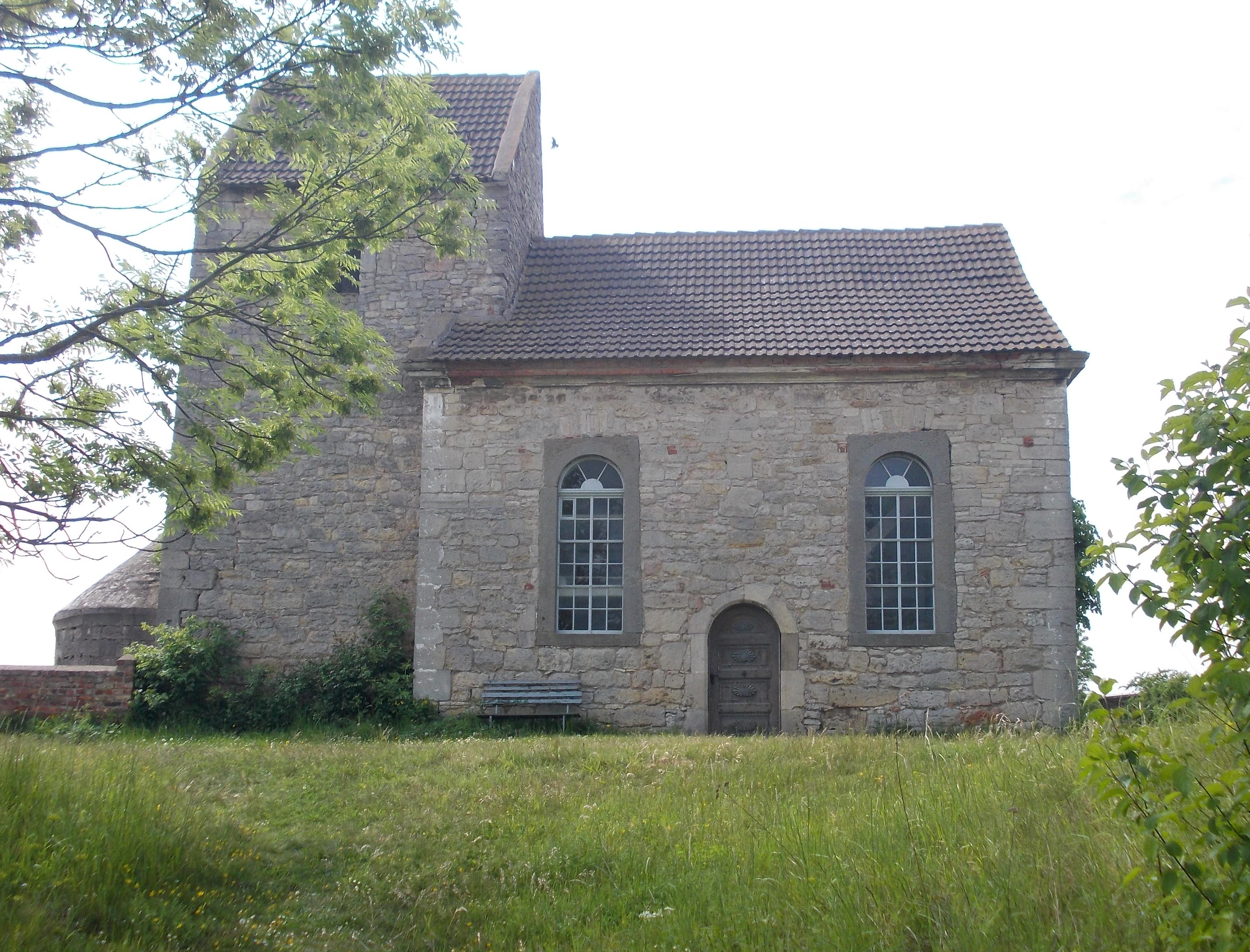 Plössnitz church (Laucha district: Burgenlandkreis, Saxony-Anhalt)